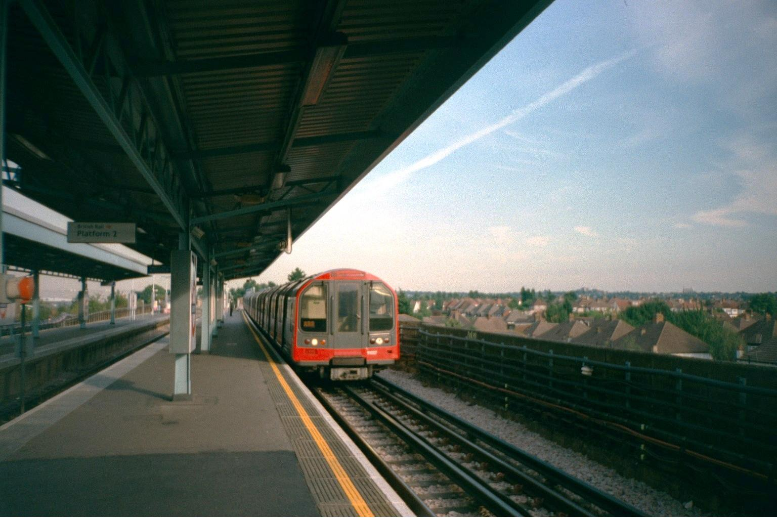 I took this picture of this London Underground train entering Greenford station my self and release it for use in the public domain.